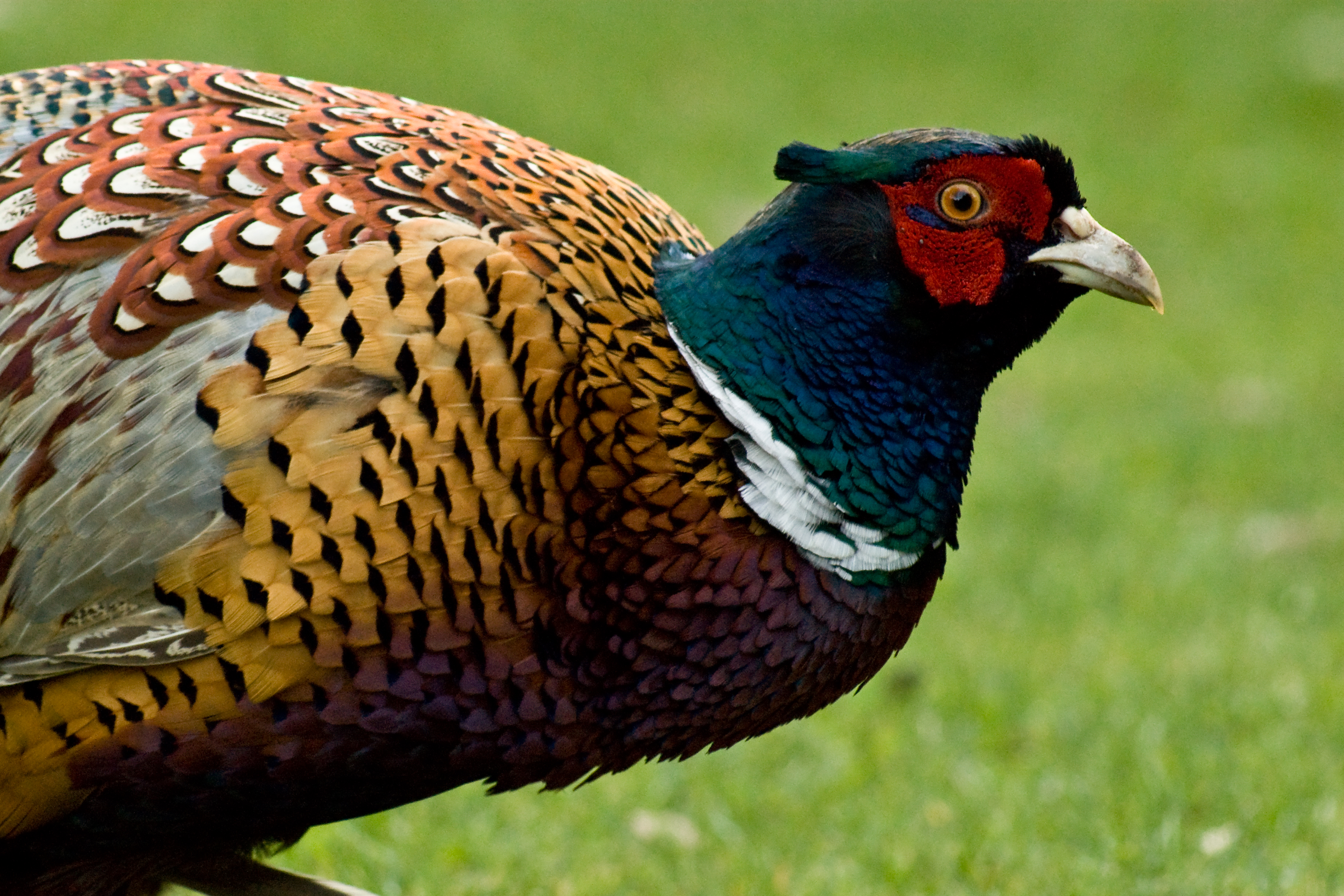 Close up of the head and body of a Common Pheasant.